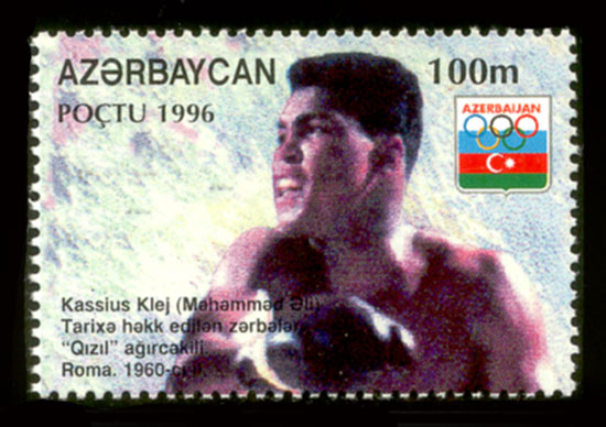 Stamp of Azerbaijan